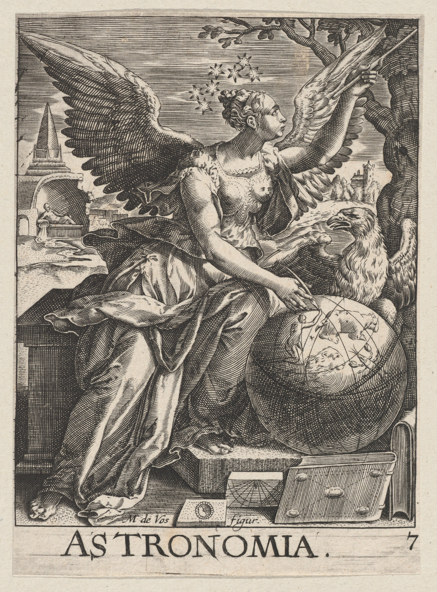 Print; Prints